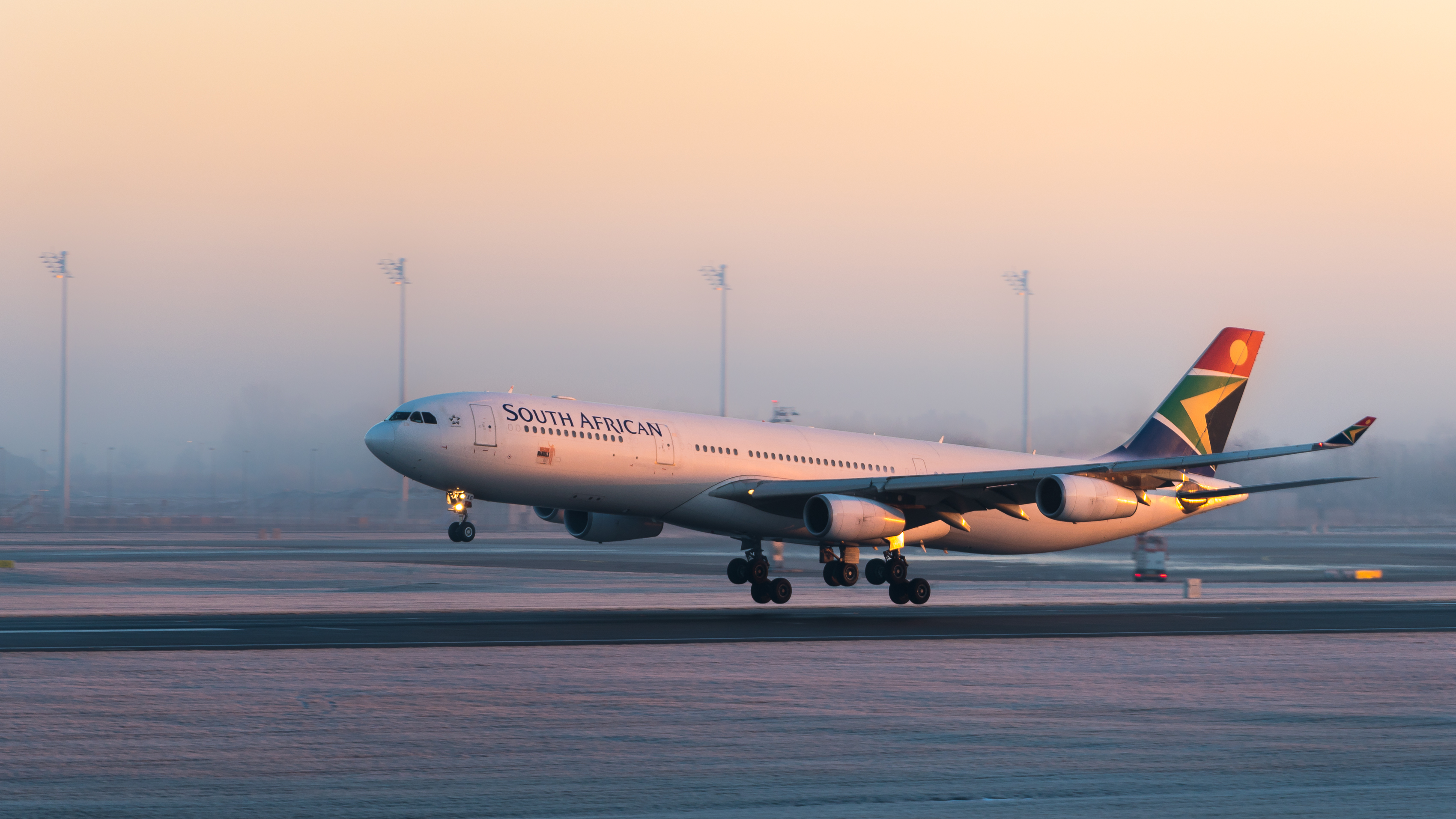 South African Airways Airbus A340-313 (reg. ZS-SXE, msn 646) landing at Munich Airport (IATA: MUC; ICAO: EDDM).